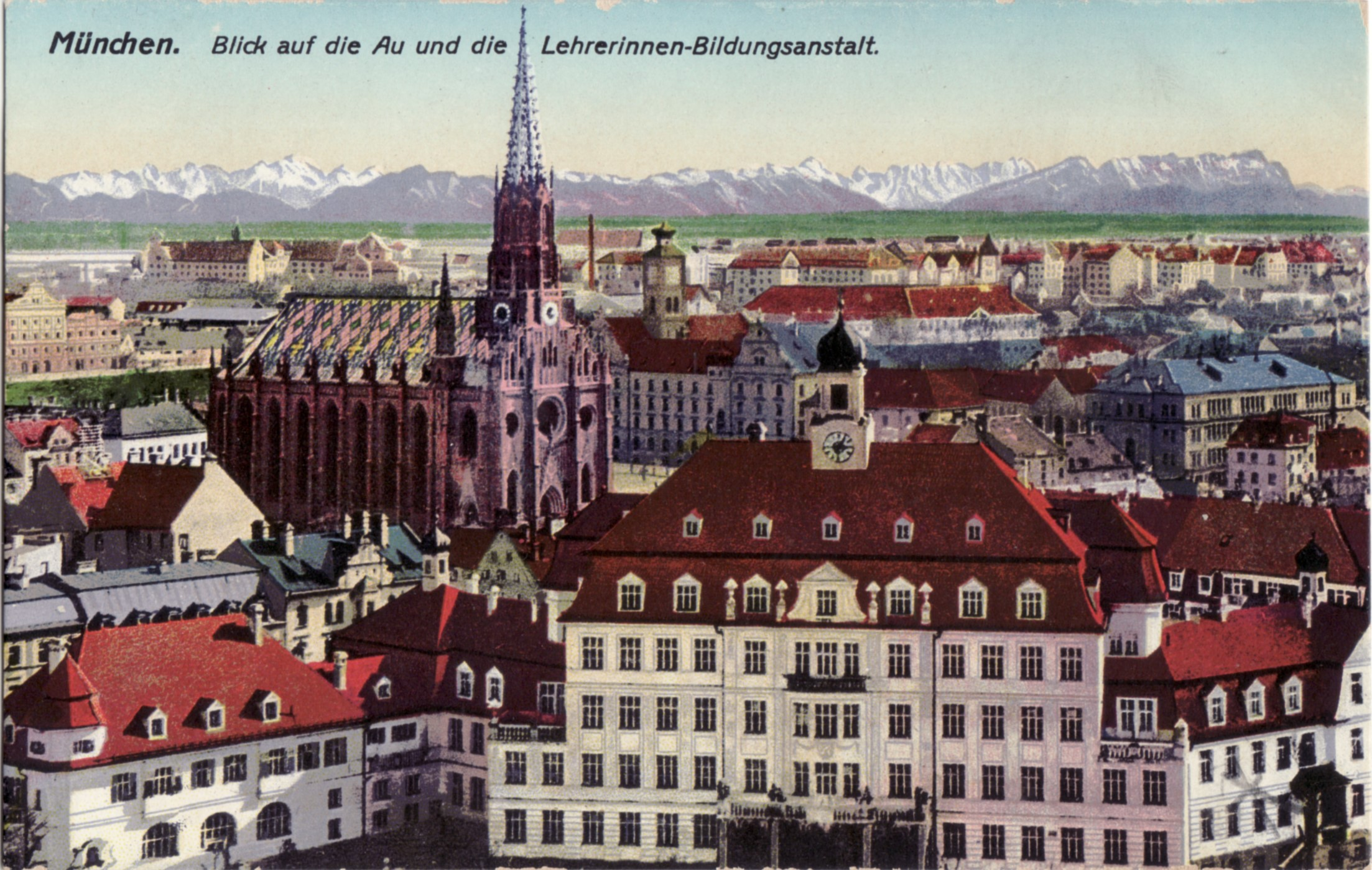 Building of the Lehrerinnen-Bildungsanstalt in Munich